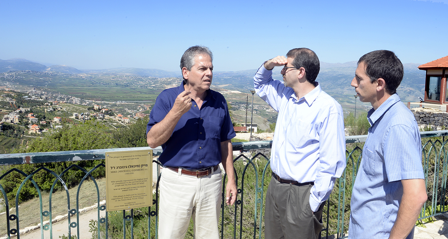 U.S. Ambassador's Daniel Shapiro visit to the upper Galilee April 20, 2016